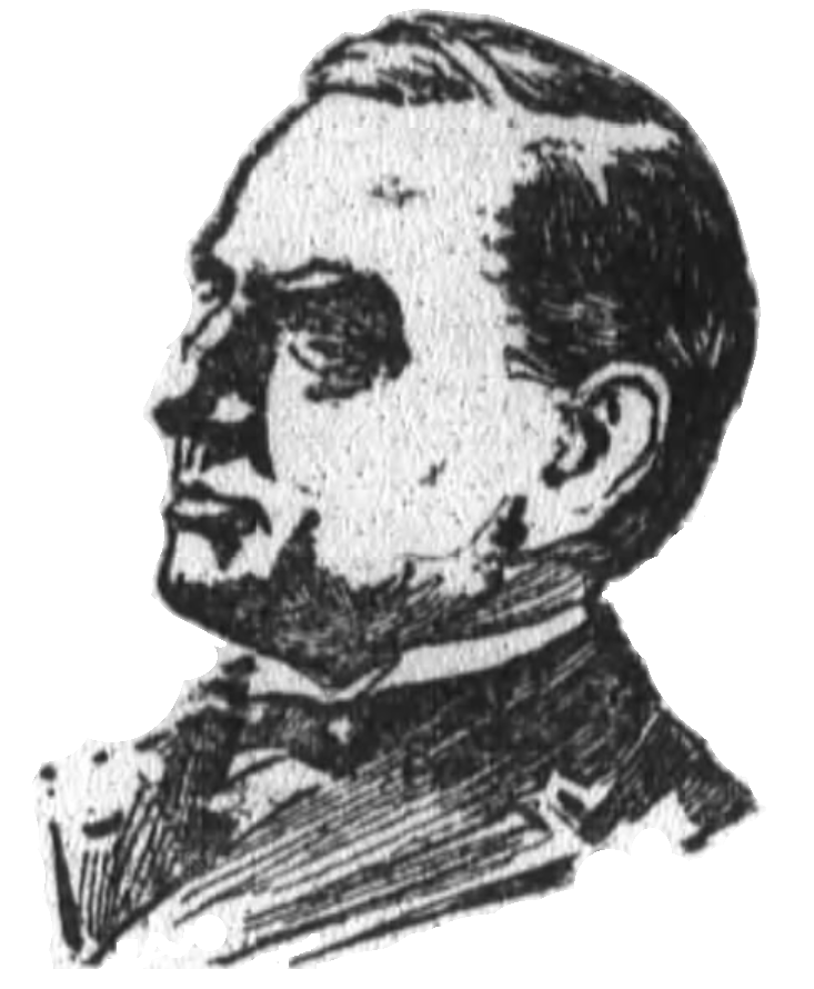 Campaign illustration of Indiana Supreme Court Justice Alexander Dowling.